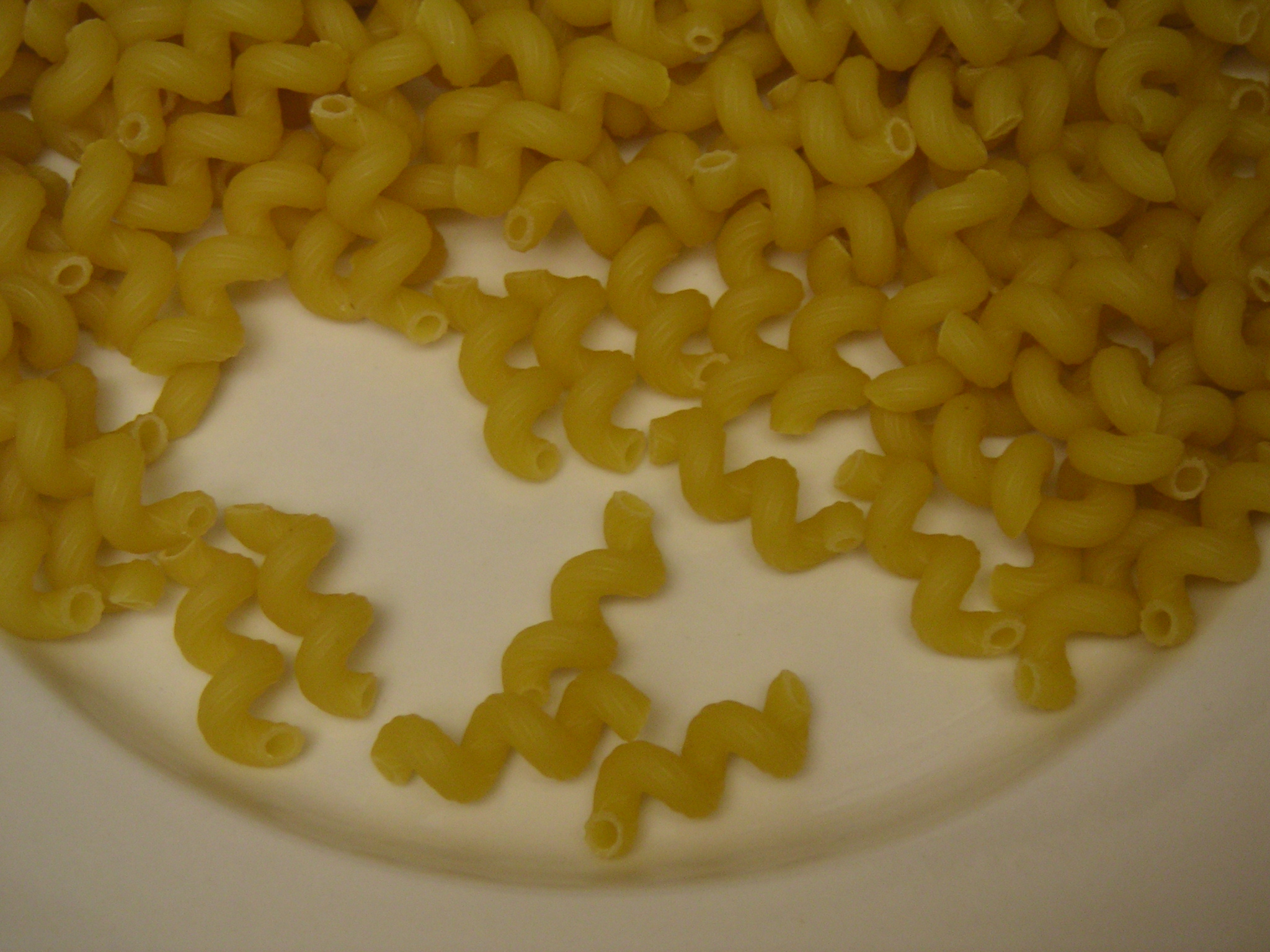 Uncooked cellentani pasta.